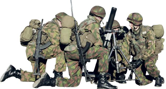 A Finnish mortar squad in firing positions